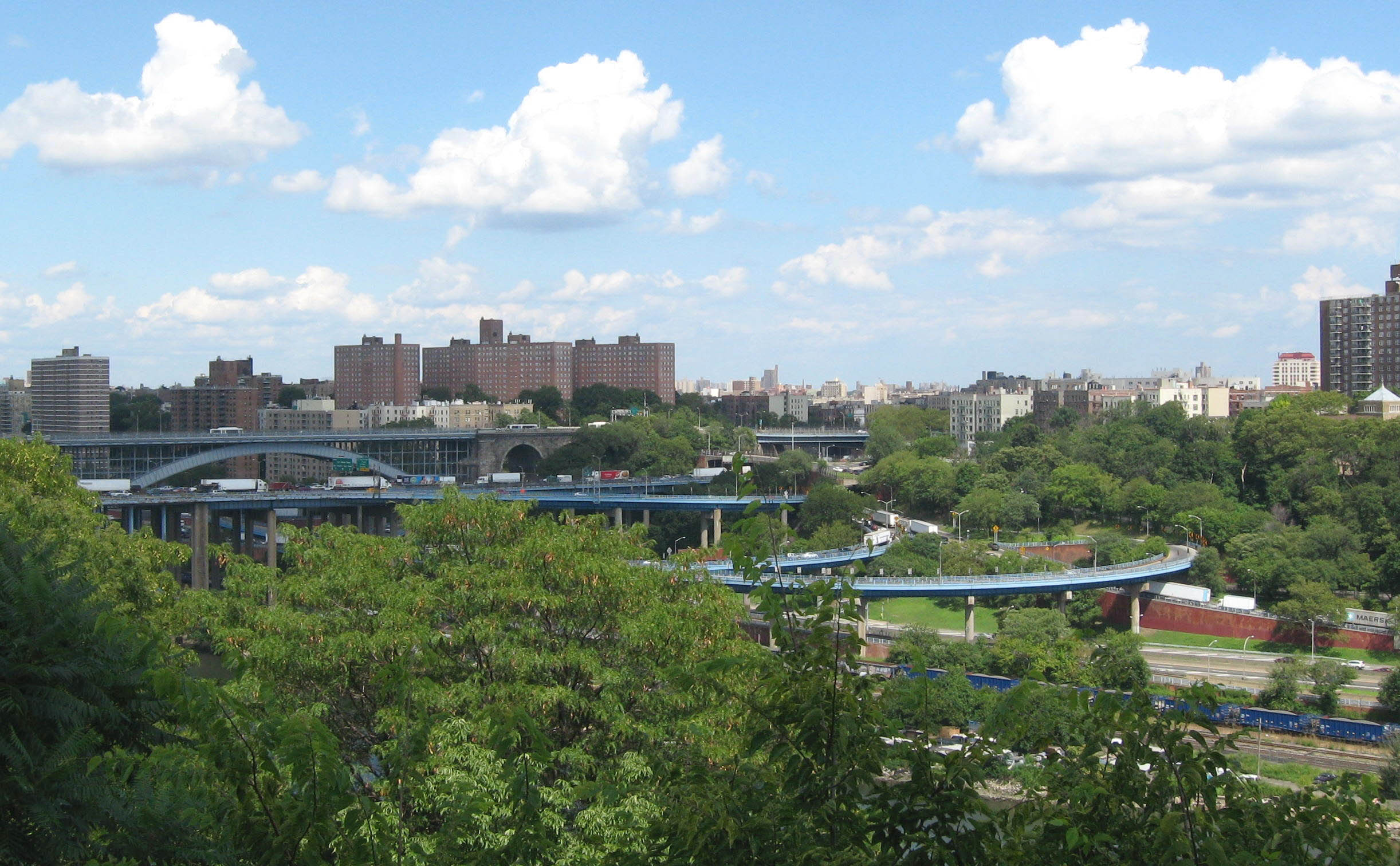 Looking east across Harlem River at Cross Bronx Expressway and Major Deegan Expressway interchange on a sunny midday